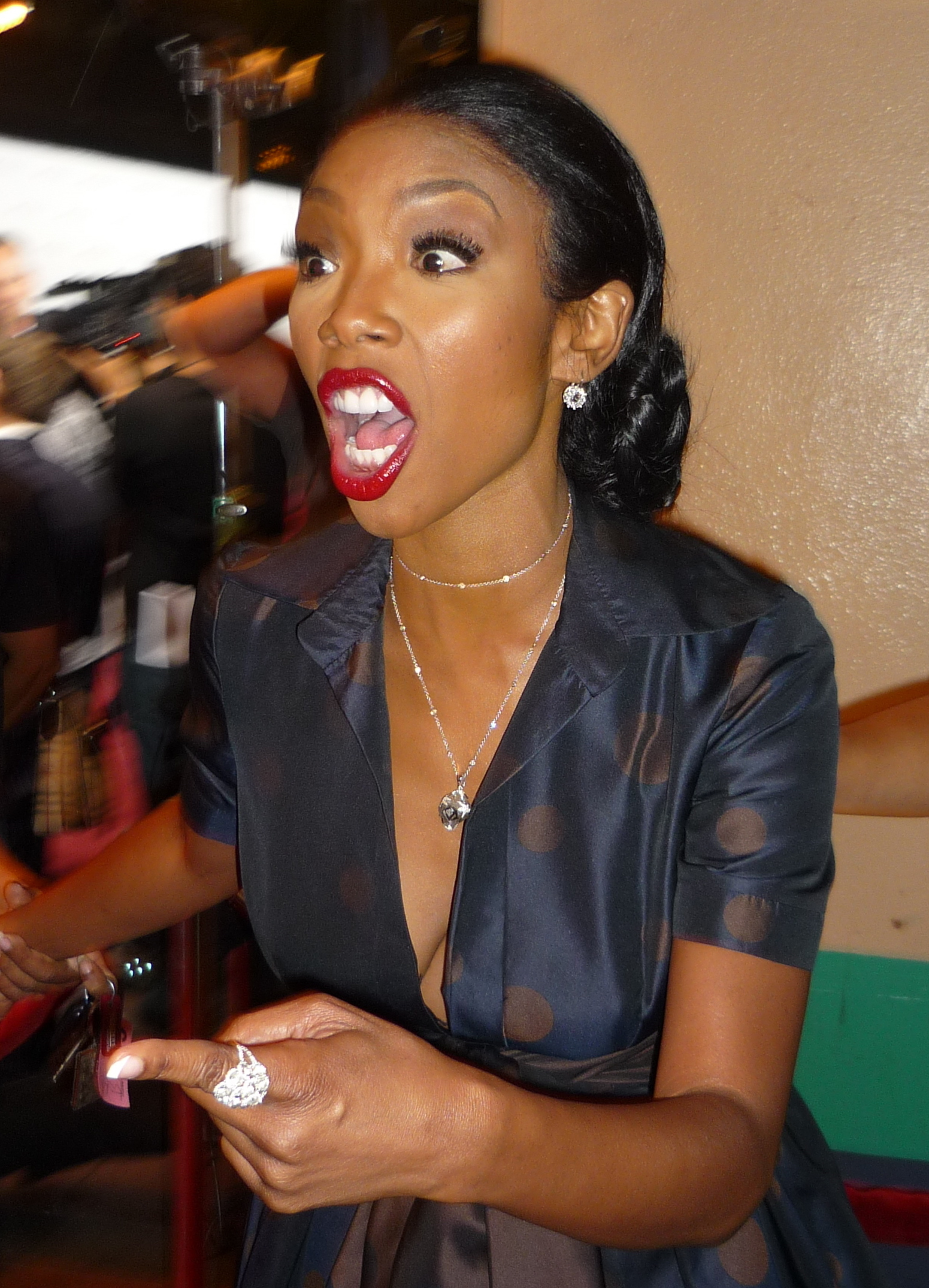 Singer Brandy Norwood on September 16, 2010.